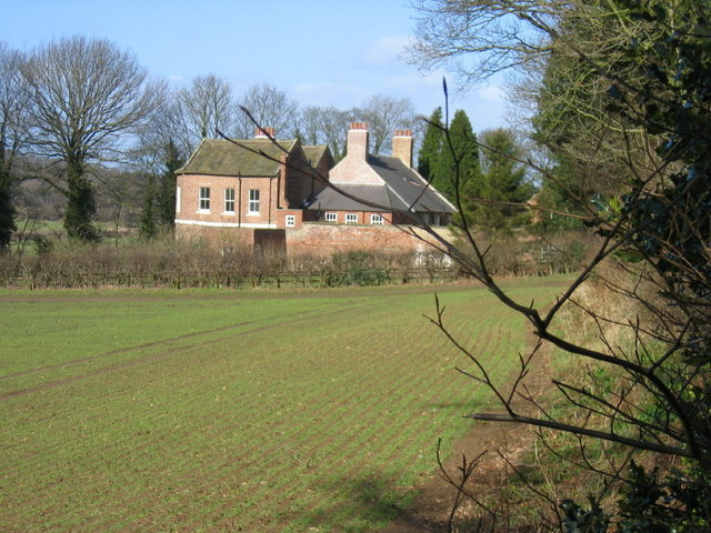 Shincliffe Hall Keys to the Past Web Site: Shincliffe Hall was built as a house in about 1771, though it is now occupied by Durham University Graduates. SHINCLIFFE HALL LANE NZ 2840 (South end, off) 13/89 Shincliffe Hall GV II House, now occupied by Durham University Graduates' Society. Circa 1771 for William Rudd, with C20 alterations. Narrow brick in Flemish bond with painted stone dressings. Main block has graduated stone tiles on roof; wing has Welsh slate roof. Old brick chimney stacks. Double-span main block with contemporary wing set corner-to-corner on right rear. 2-storey, 3-bay garden front has band between storeys and replaced sashes with projecting stone sills and segmental brick heads. Late C20 addition on ground- floor right bay. Steeply-pitched 2-span roof with stone-coped gable parapets and shaped kneelers. Tumbled-in brickwork on gables. Twin-gabled returns: 2-storey canted brick bay, with replaced sashes and hipped roof, on left return of front range; some 12-pane sashes on left return of rear range; 2-storey late C19 lean-to addition on right return. Tripartite sash window and early C20 glazed octagonal porch on rear of main block. 3-bay wing, of 2 storeys and attics,has mainly replaced sashes, some in altered openings,and a catslide roof with transverse end stacks. Lower 2-storey rear facing courtyard. Interior: main block contains cut-string, open-well staircase, of 3 flights plus landing rail, with 2 turned balusters per tread and a ramped and wreathed handrail. Staircase hall has modillion cornice. 6-panel doors in architraves with panelled reveals. Late C20 flat-roofed addition on right ground-floor bay of garden front is not of interest.